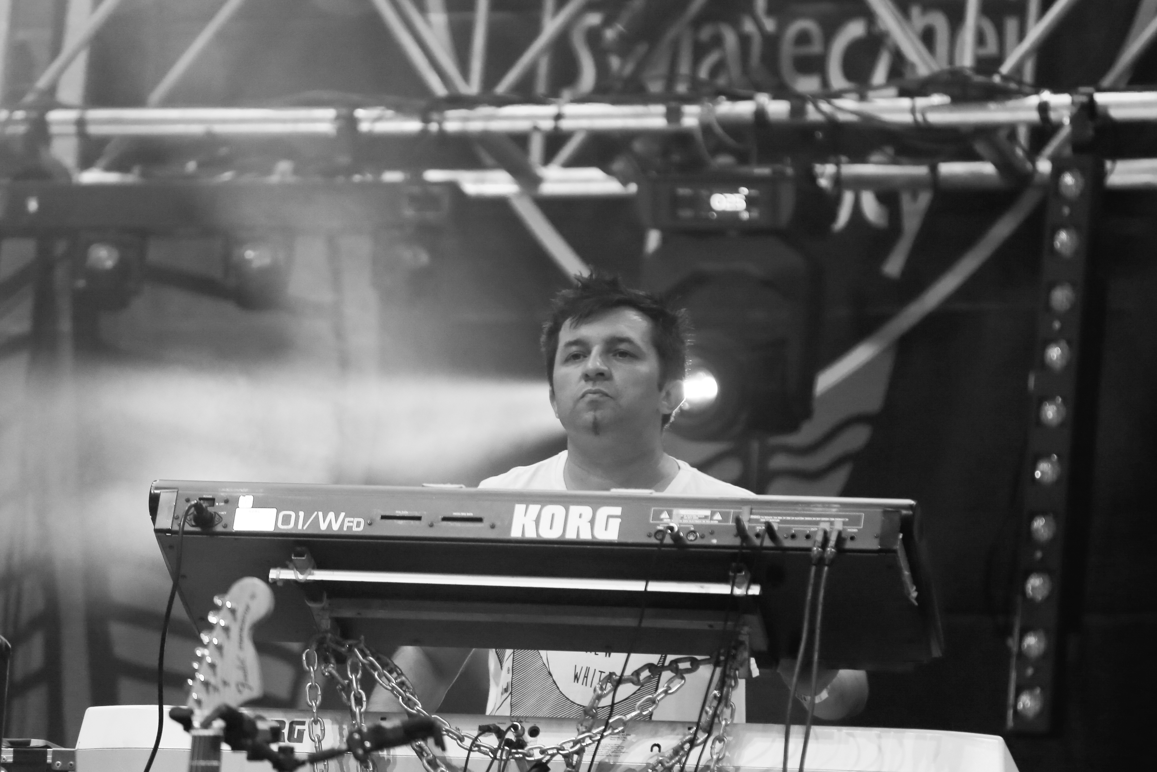 Przystanek Woodstock in 2016.